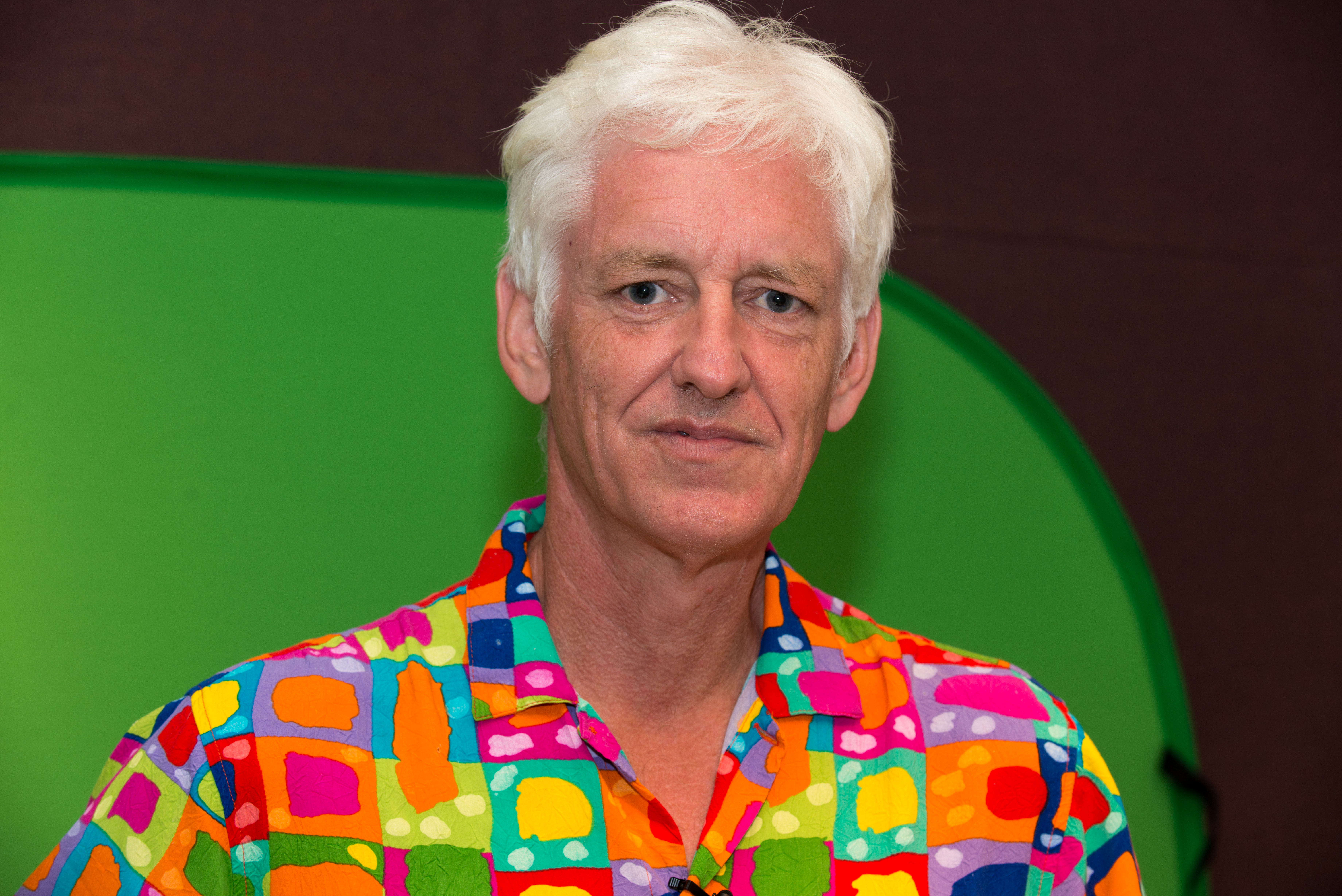 In 306 Soda Hall (HP Auditorium) in the Electrical Engineering & Computer Science department. This was just before his talk on "Building Better Online Courses". The green screen behind him was being used by a previous class to record video of the instructor.